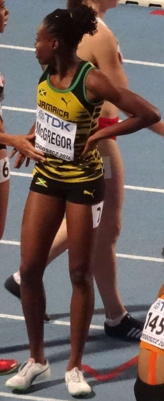 2016 IAAF World U20 Championships in Bydgoszcz, 200m women semi-final